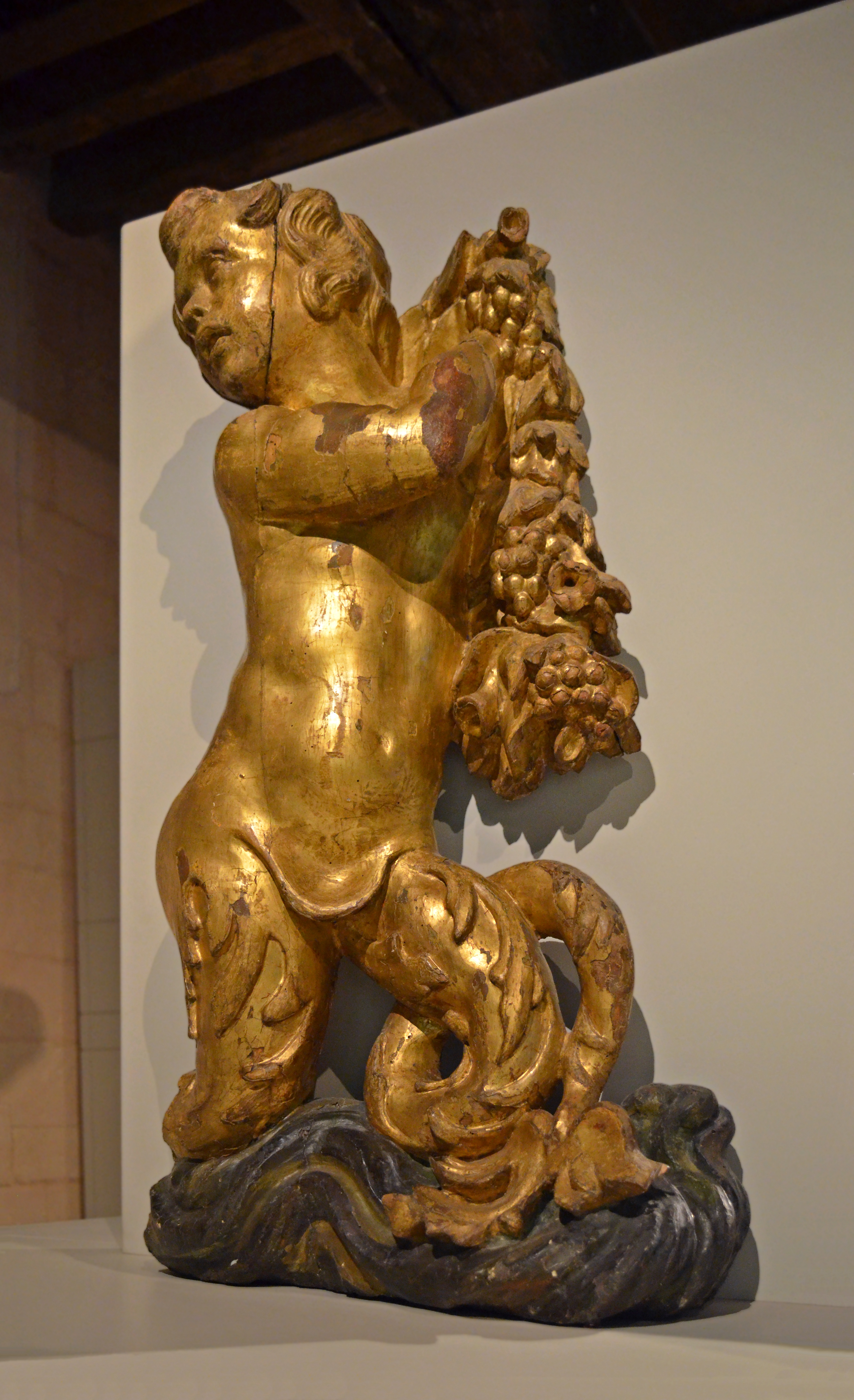 Old ship ornament figuring Triton - XVIIIth century. Nantes history museum.